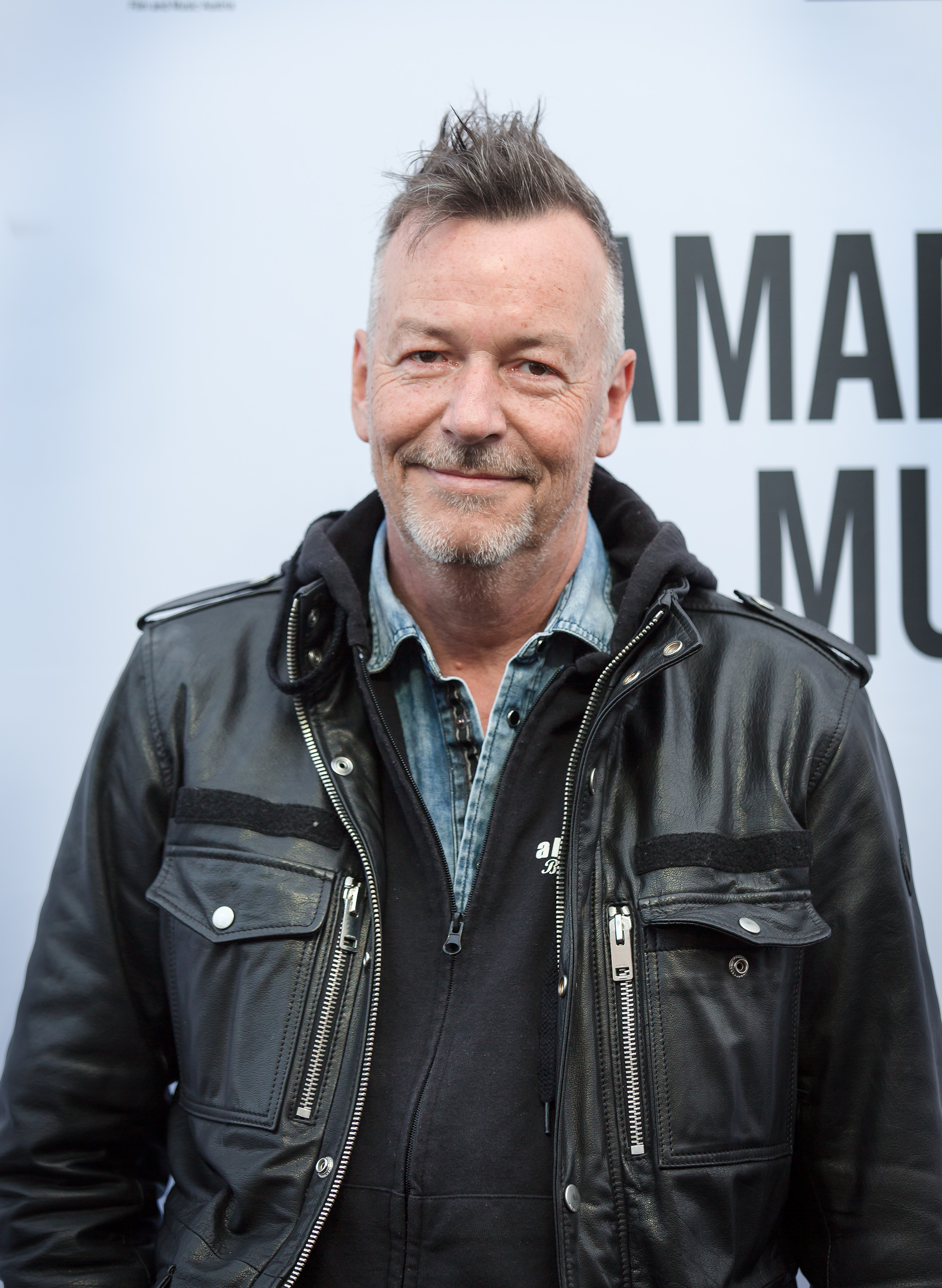 Alex Deutsch at the Amadeus Austrian Music Award 2015 at Volkstheater in Vienna